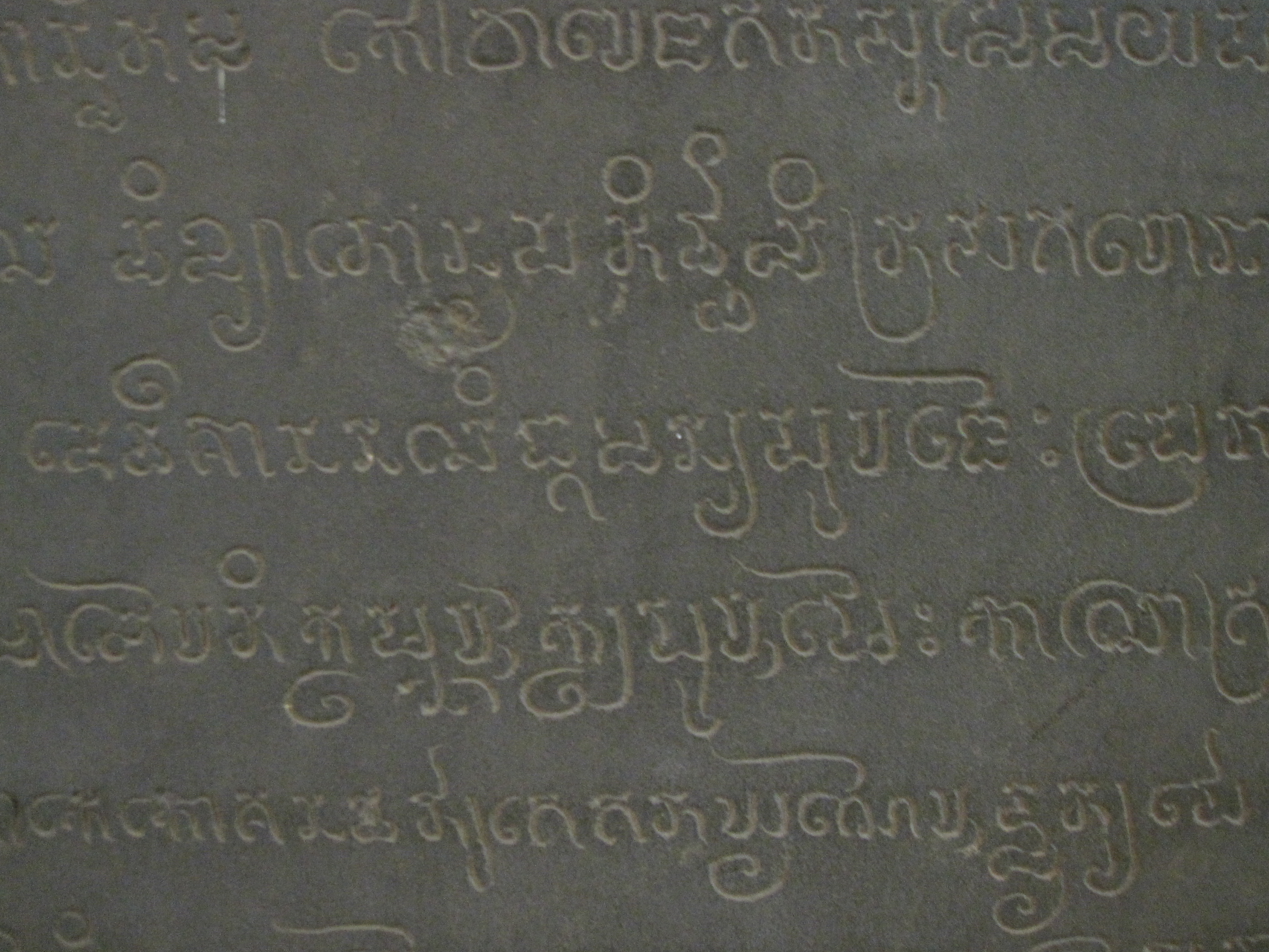 Po Nagar Stele, sandstone, erected in 887 Caka-Cham calendar (965 CE). Po Nagar temple, Khanh Hoa province, central Vietnam. Inscription says: In circa 703-706 Caka-Cham calendar (781-784 CE), King Satyavarman erected a linga to Shiva and made his nephew King Vikrantavarman.In 887 Caka-Cham calendar (965 CE), King Jaya Indravarman I erected the new statue of the deity Bhagavti (Uma) in stone to replace the missing one that was made in 840 (918 CE) in gold.